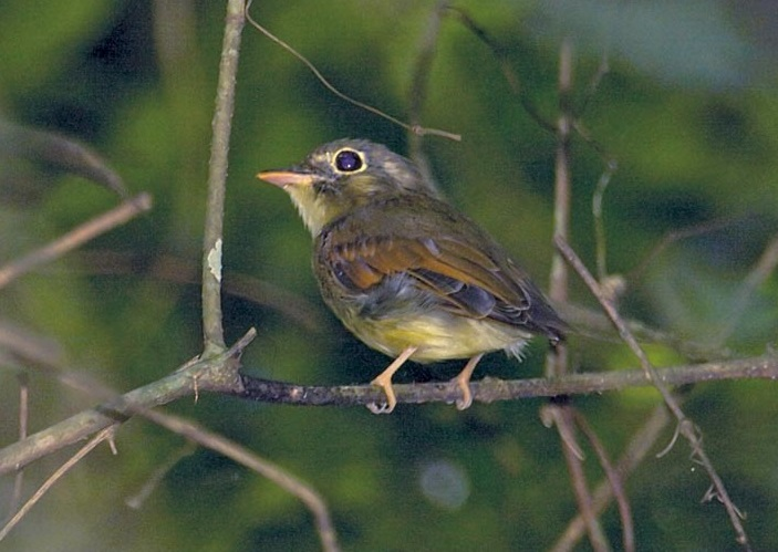 Platyrinchus leucoryphus at Pousada Bacury (Anhembi, Sao Paulo, Brazil)